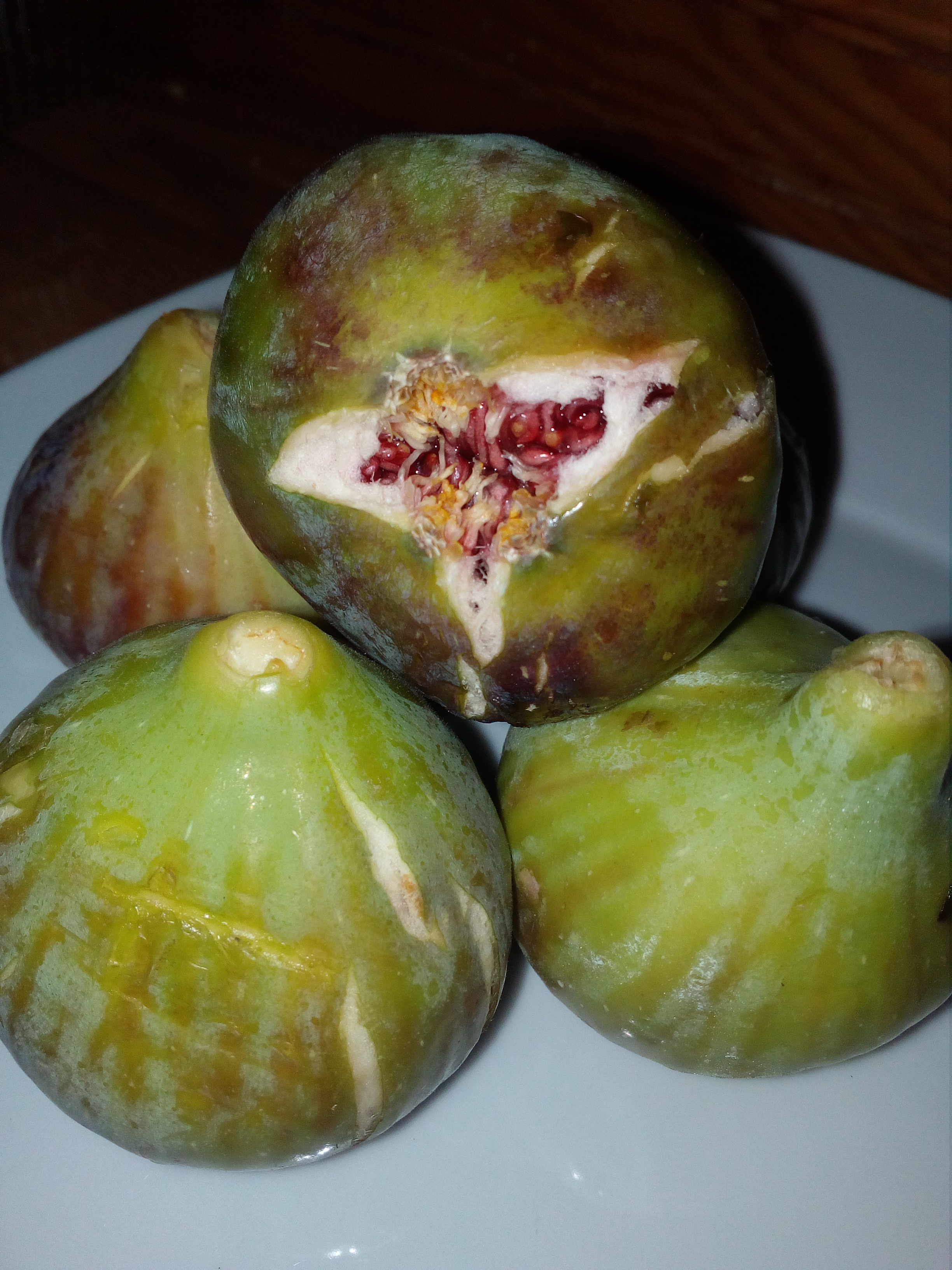 Ficus carica fruits